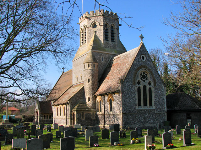 St Margaret's parish church, Hopton-on-Sea, Norfolk, seen from the southeast.Built to replace an earlier church that burnt down in 1865.